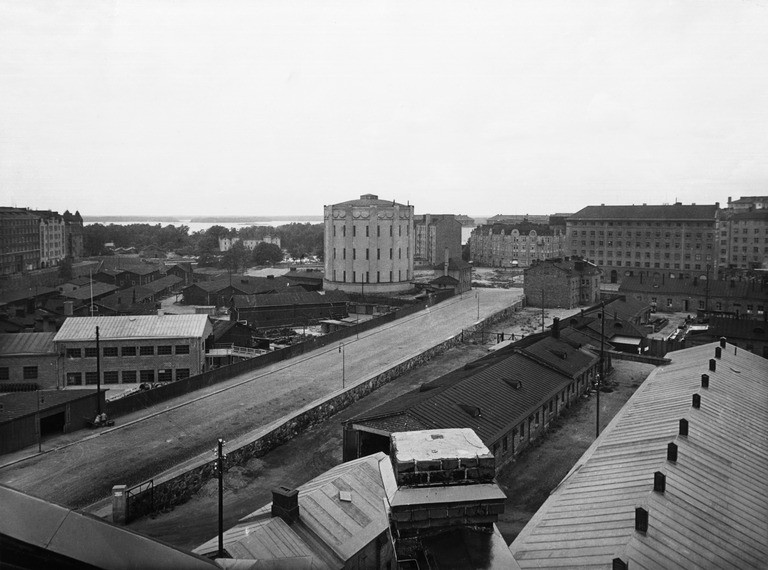 Southern part of Runeberginkatu, Helsinki, in the 1930's